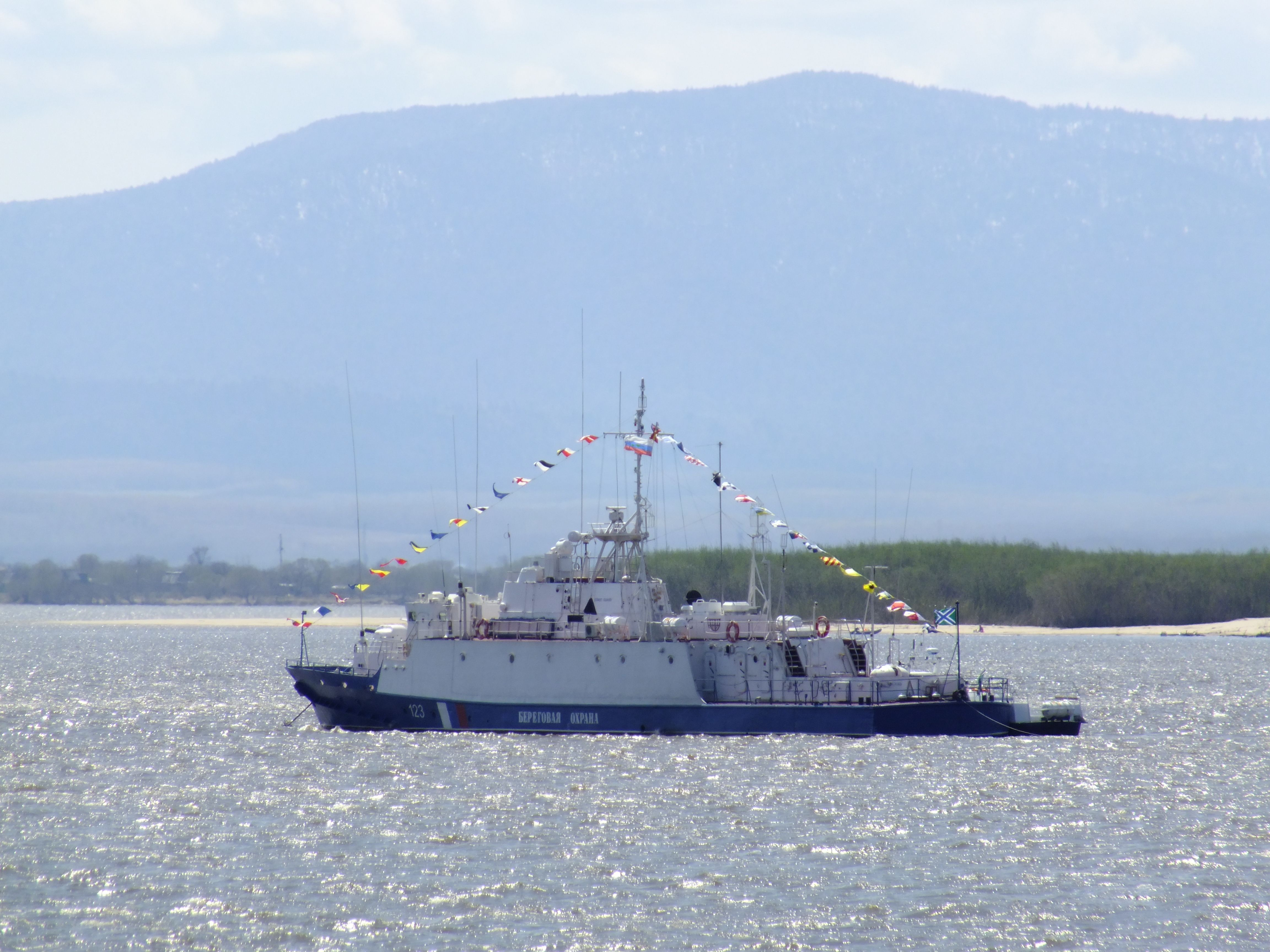 Amur Military Flotilla